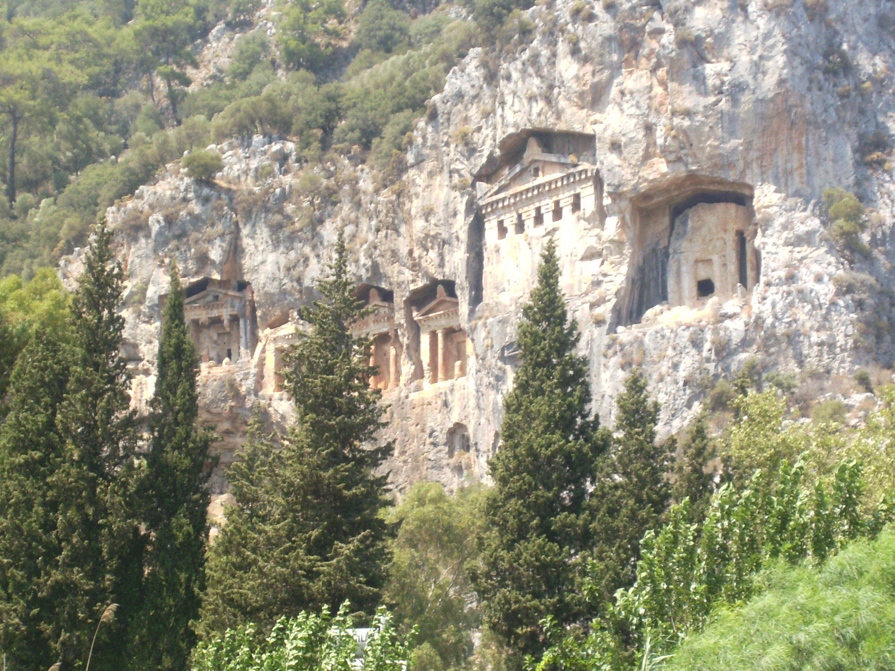 Lycian Kings' Tombs carved in rock. It is located in Dalyan.